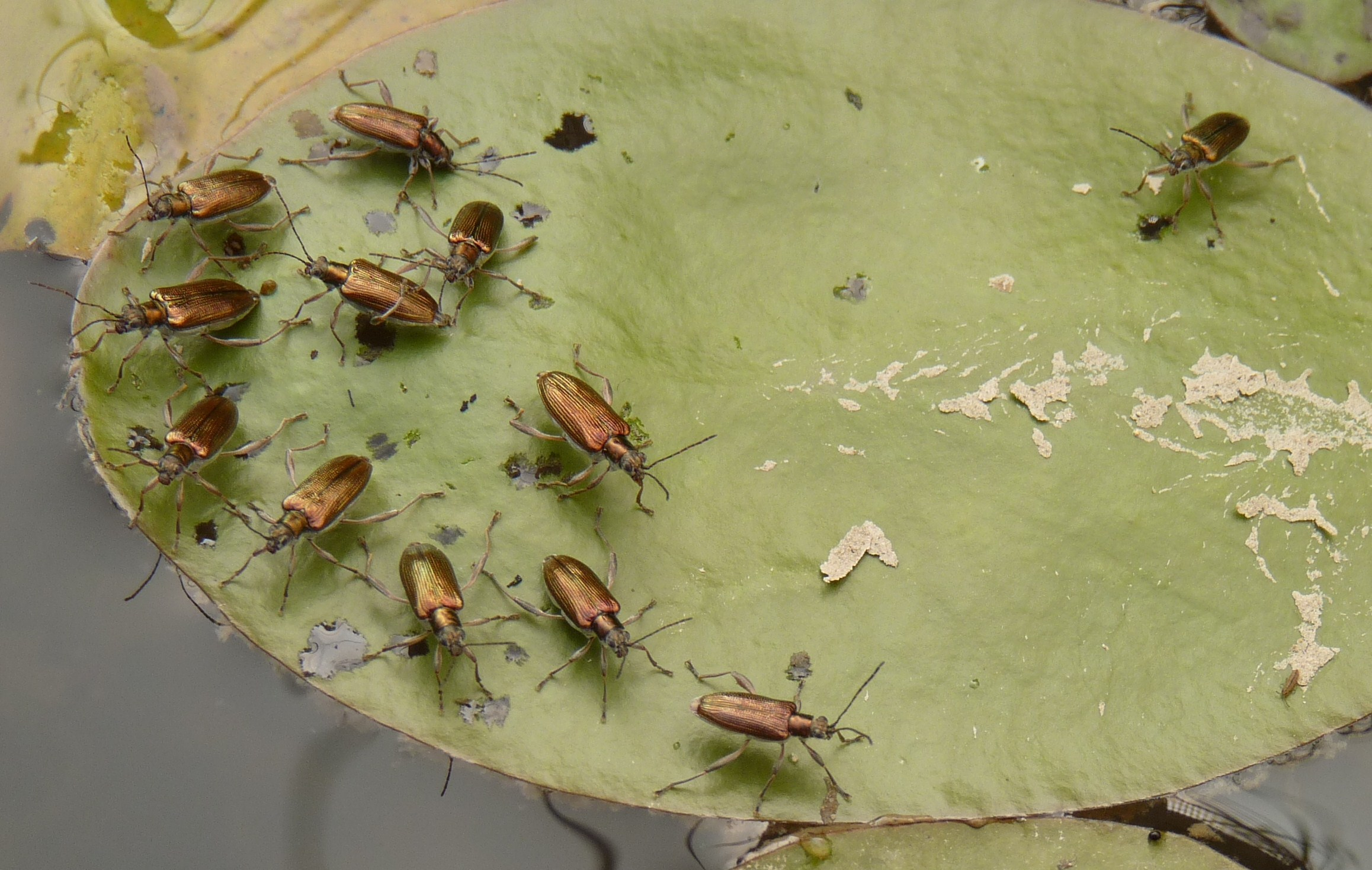 Donacia provostii